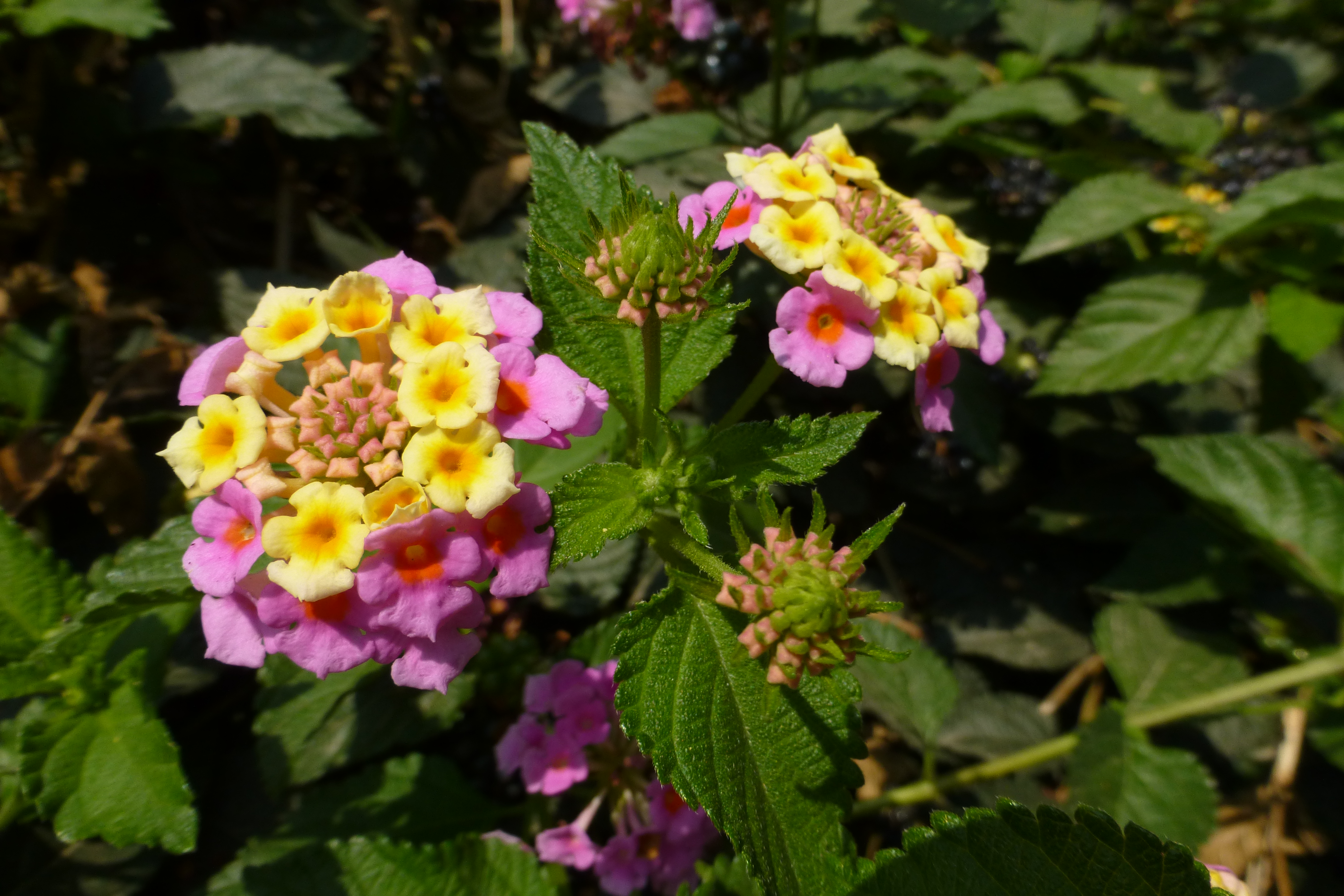 Tel Aviv-Yafo